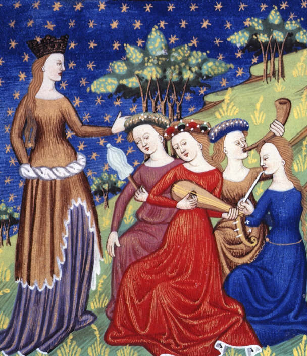 Queen with four attendant maidens playing musical instruments. French translation of De claris mulieribus.